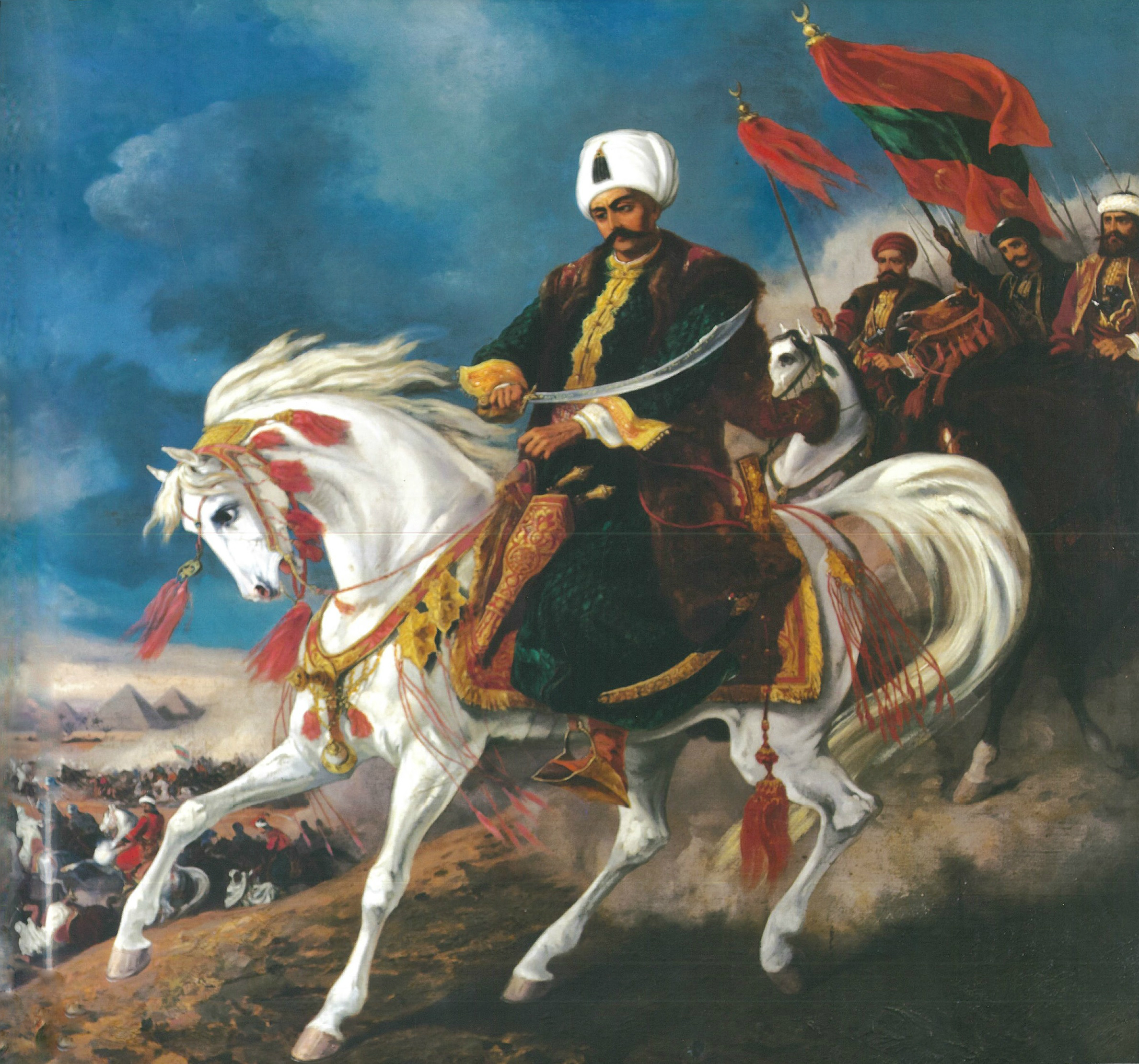 Yavuz sultan Selim in Egypt.